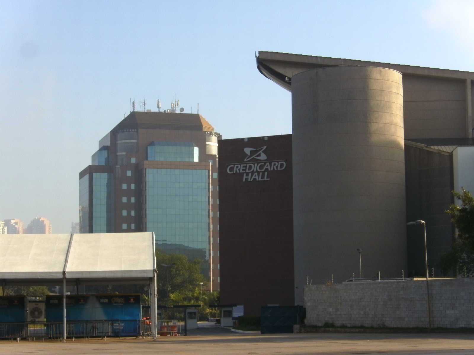 Credicard Hall in Sao Paulo, Brazil